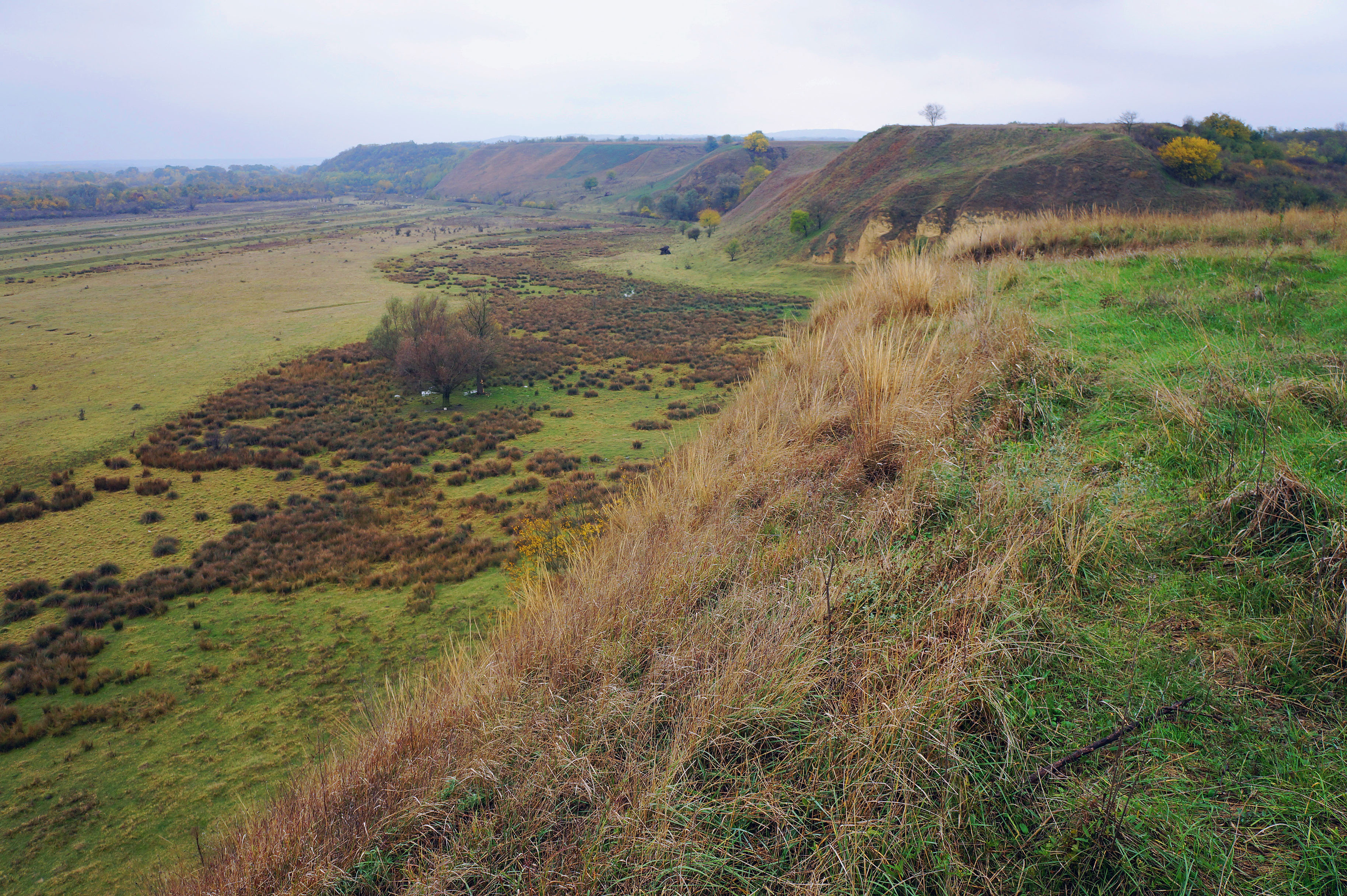 Archaeological site Židovar, in Serbia [BAN581]